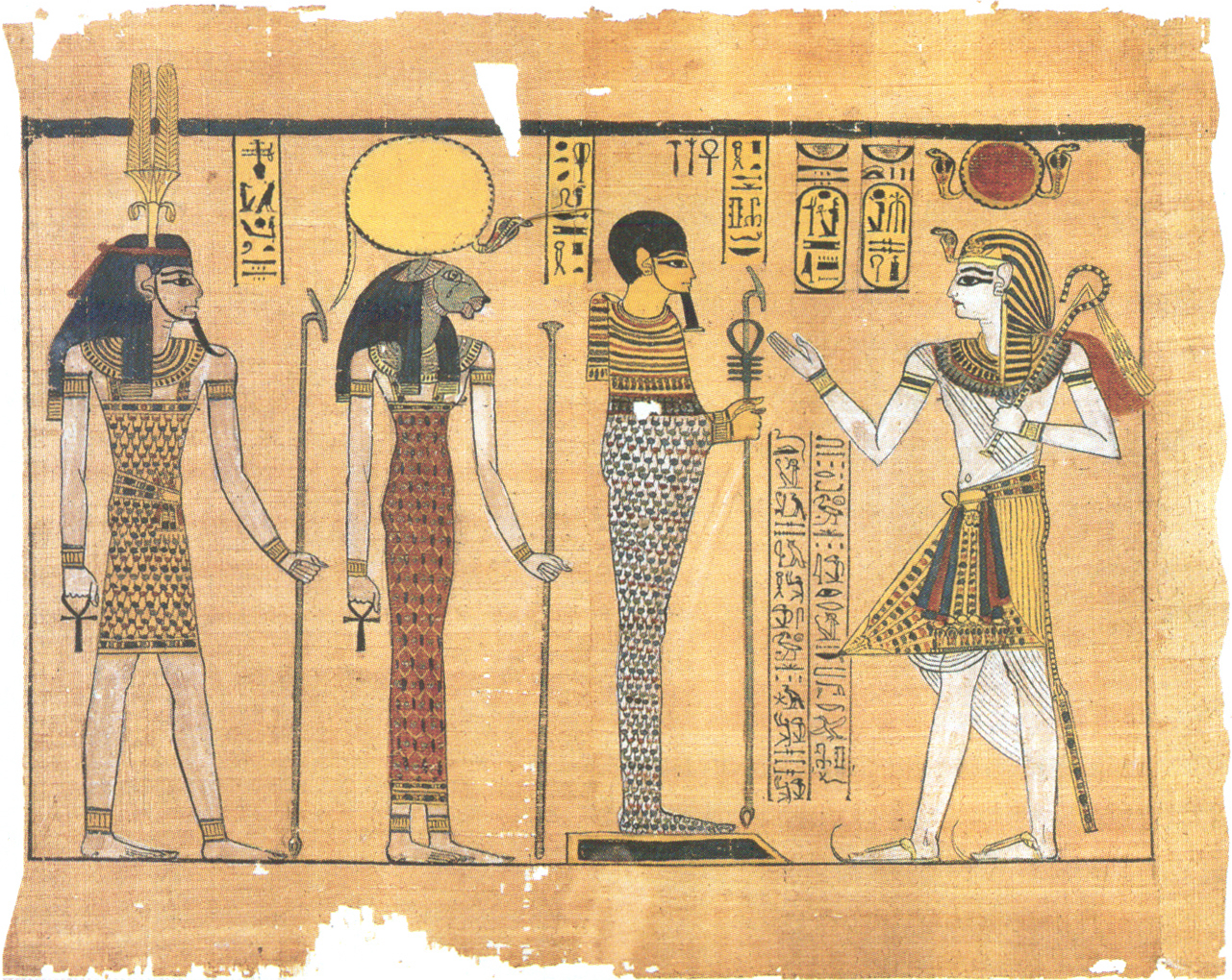 Ramses III (right) and the three gods from Memphis.